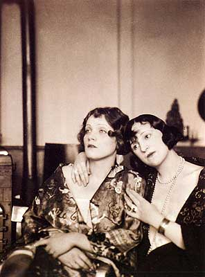 photograph Marlene Dietrich and Ressel Orla